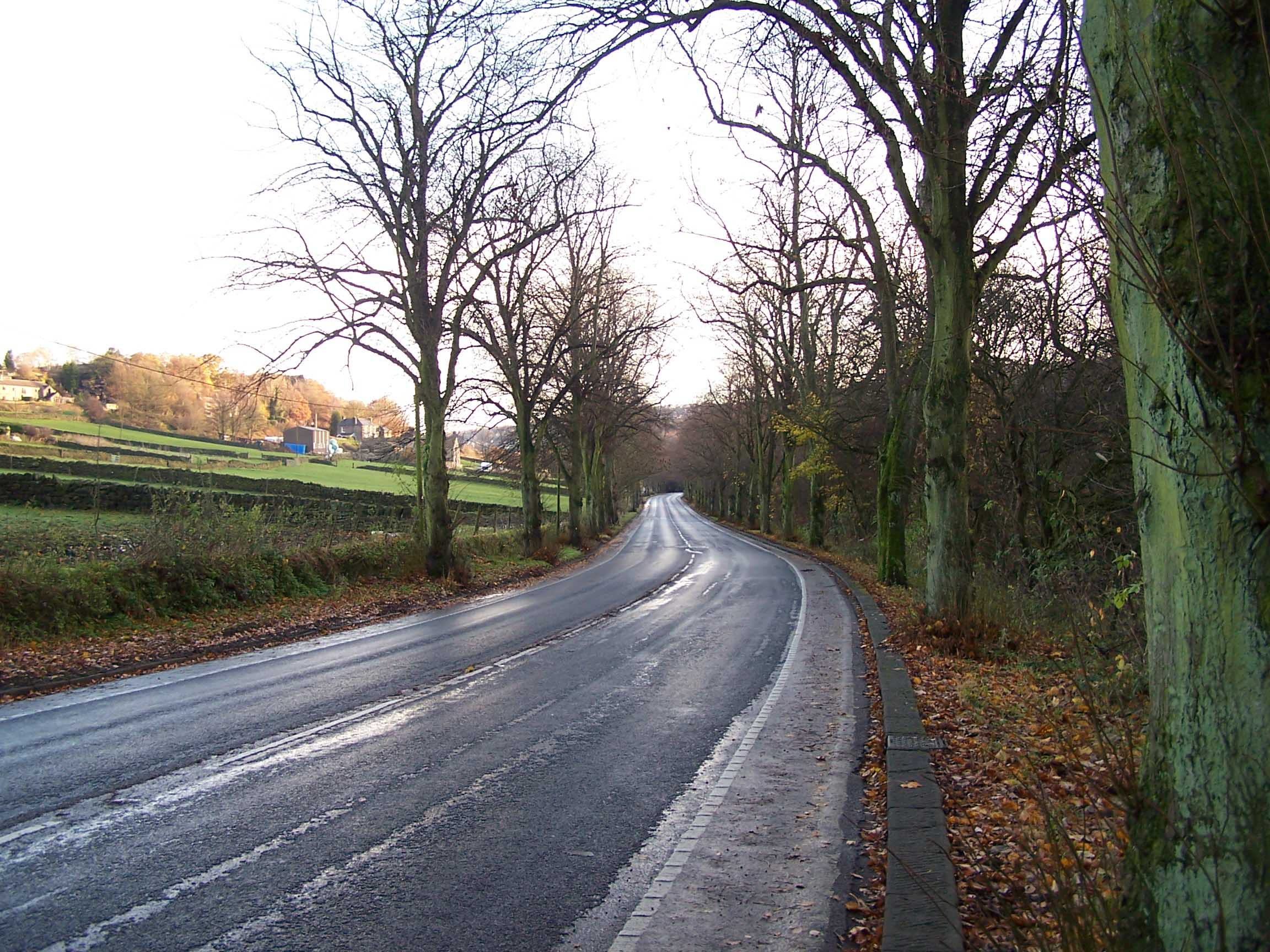 A long straight stretch of Rivelin Valley Road lined with its many lime trees.